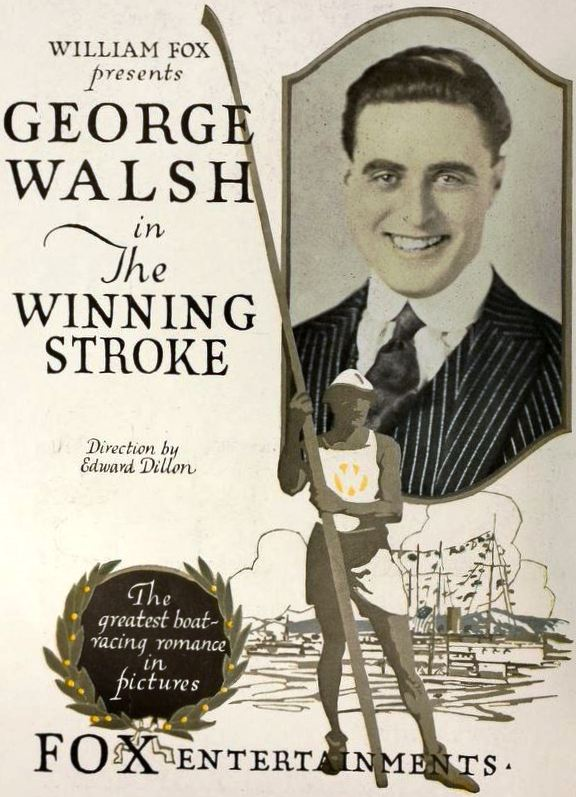 Ad for the American film The Winning Stroke (1919) with George Walsh, page 1364 of the August 16, 1919 Motion Picture News.